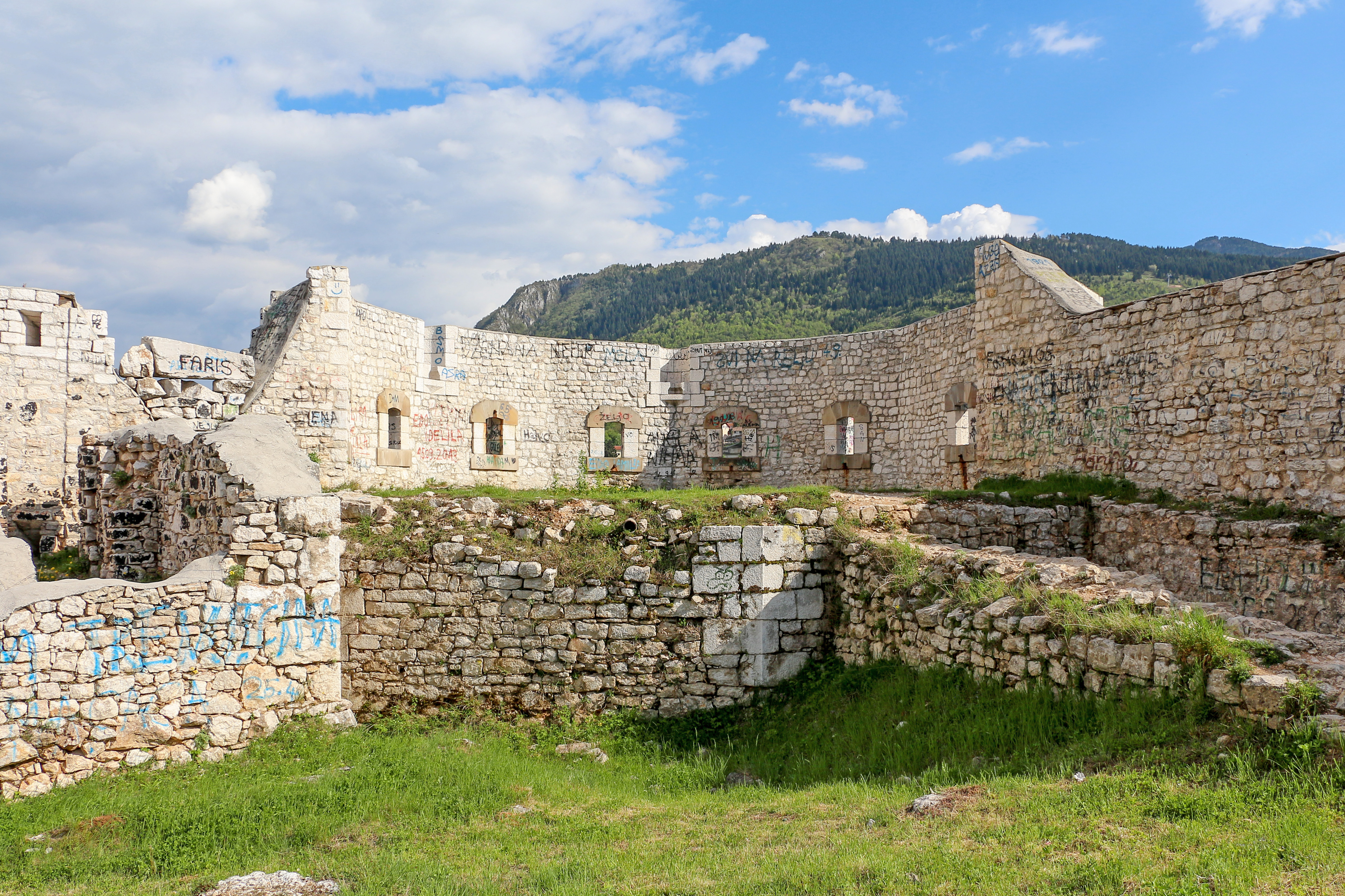 White Fortress (Bijela Tabija), Sarajevo, Bosnia and Herzegovina